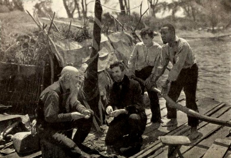 Still from the American film Huckleberry Finn (1920) with Tom Bates (1864 – 1930), Orrall Humphrey, Lewis Sargent, and George H. Reed, on page 10 of the May 1920 Moving Picture Age.